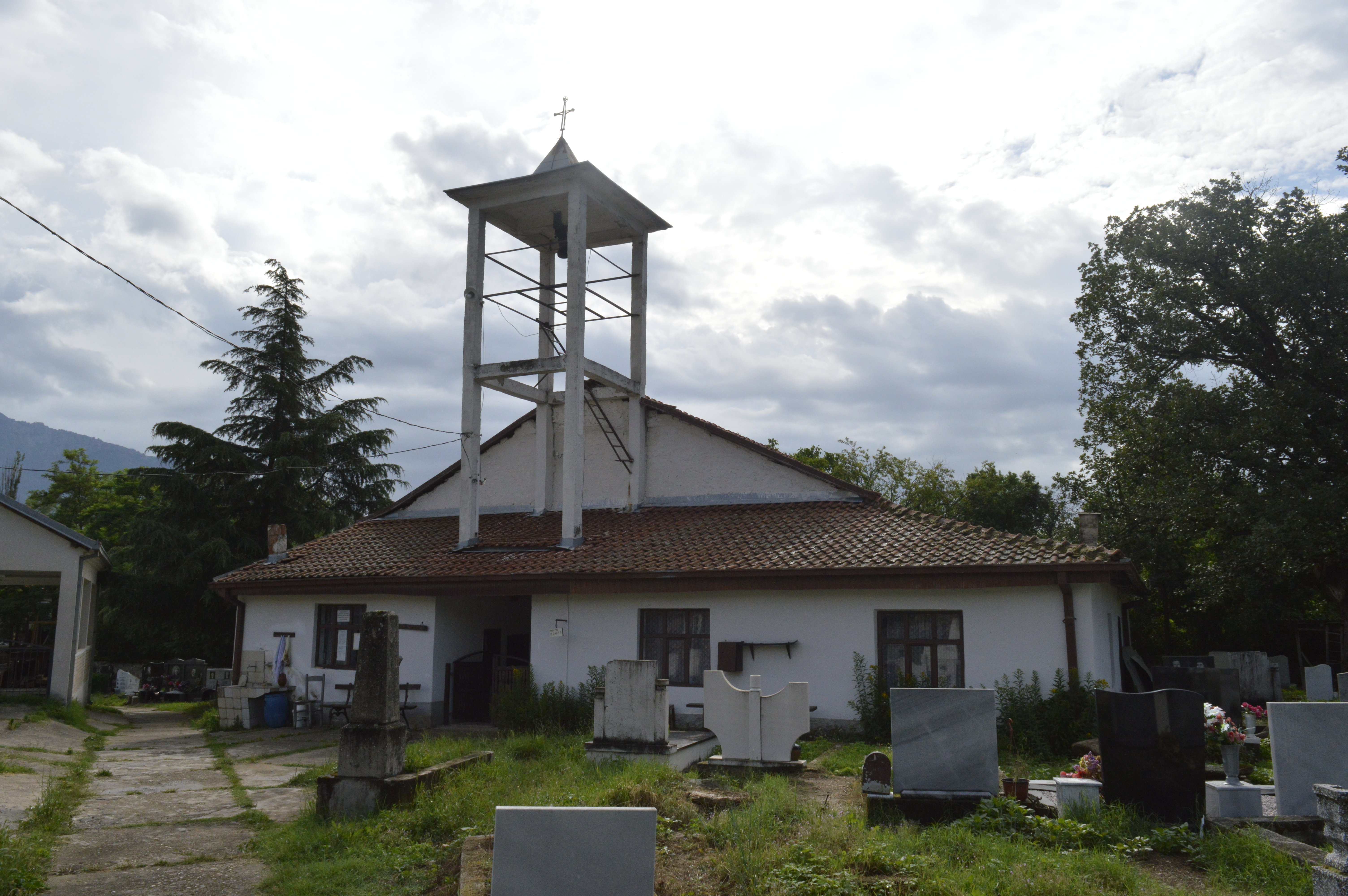 View of the St. Athanasius Church in the village Bogomila